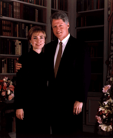 Official White House photo of President Bill Clinton and the First Lady, Hillary Clinton